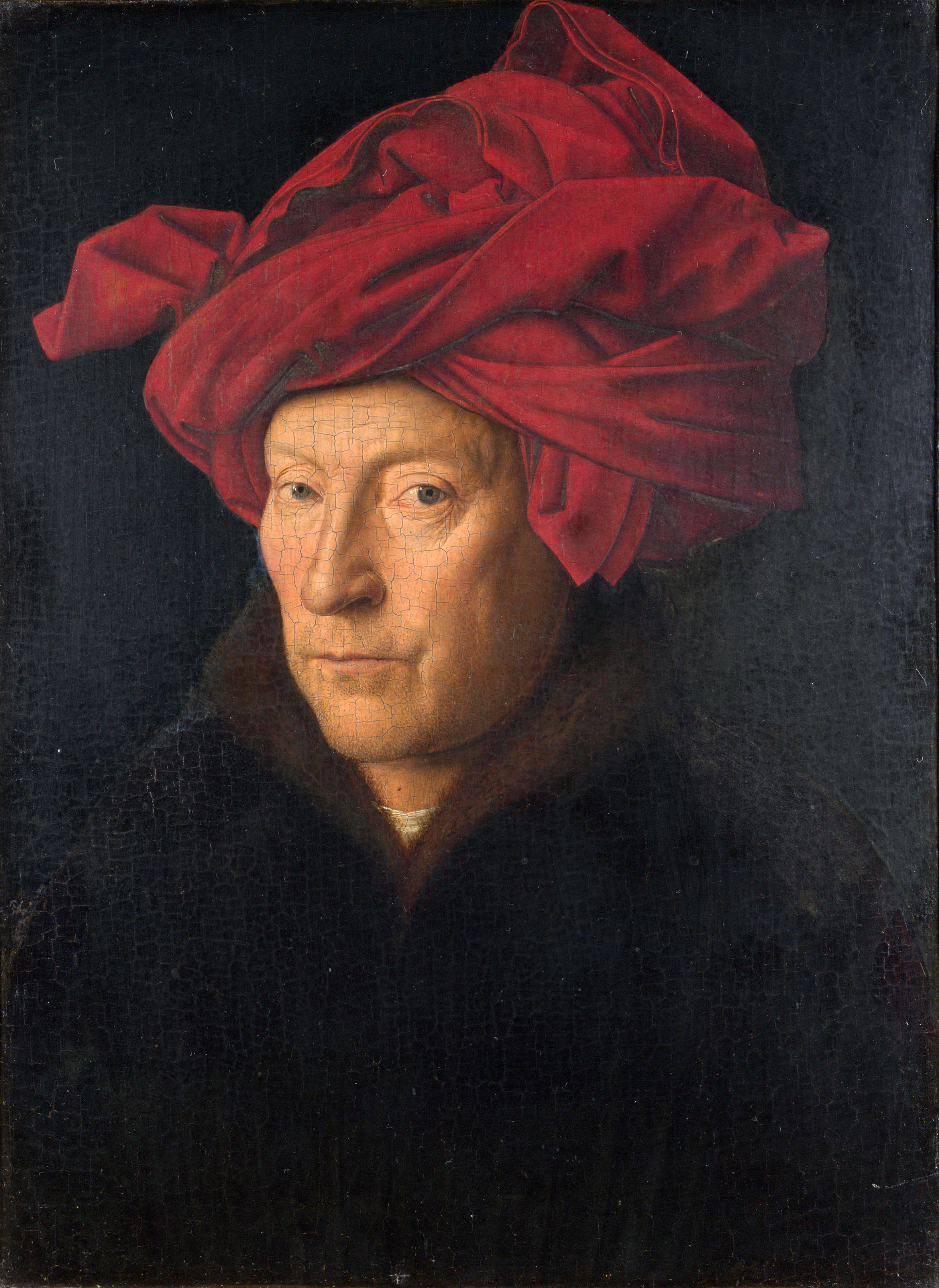 Portrait of a Man (Self-portrait?)